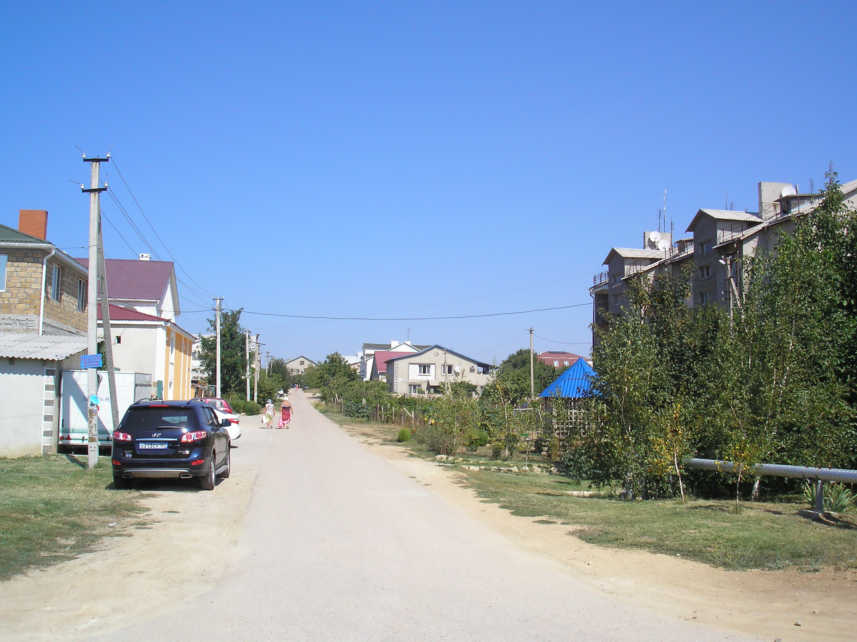 Village Andreevka, Sevastopol, Crimea.